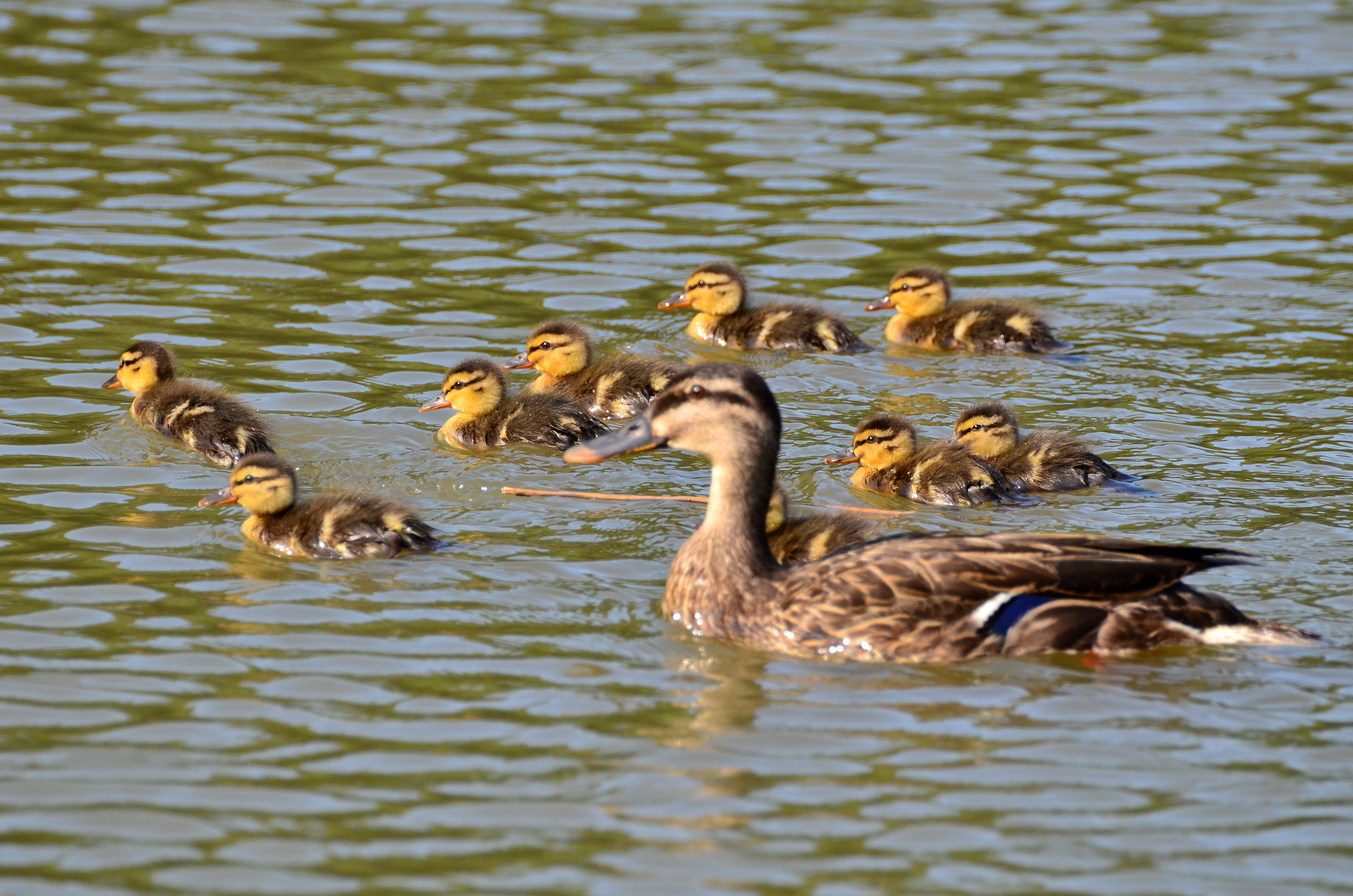 Grey duck and spotbill duck, Yokohama City, Japan.